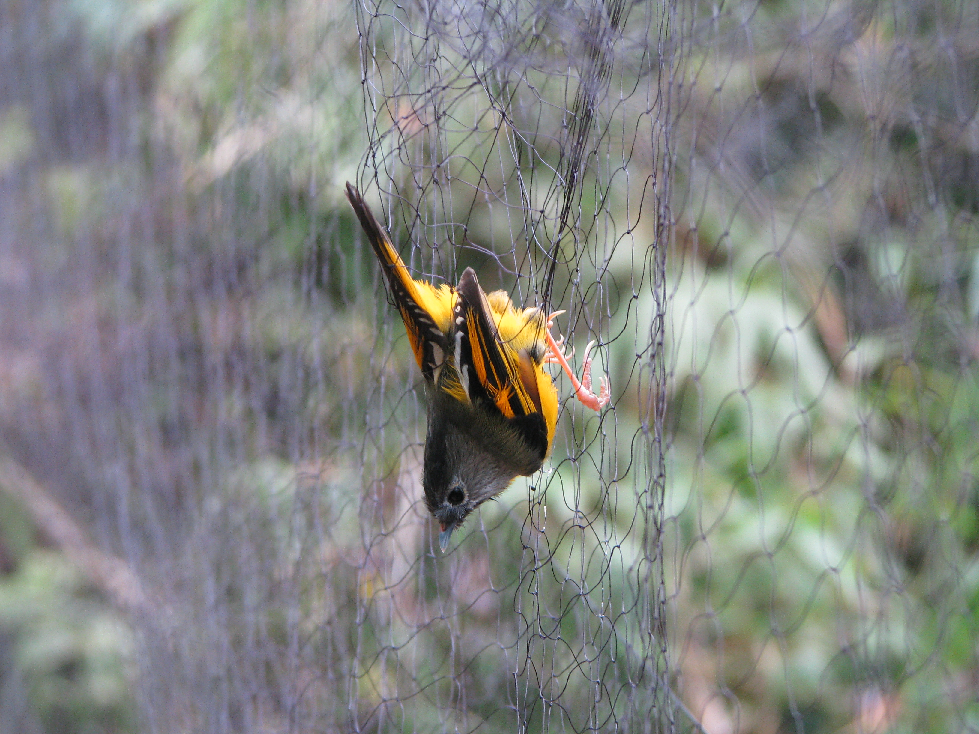 A Golden-breasted Fulvetta caught in a mist net